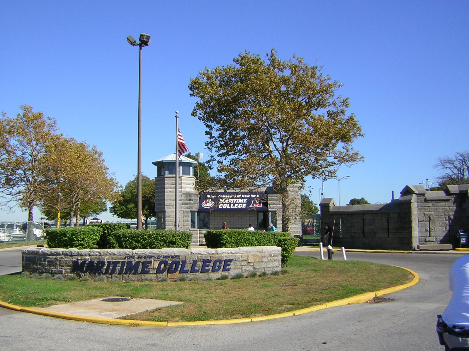 North (land side) gate of the New York State Maritime College unit of SUNY, taken during the 2007 Tour de Bronx